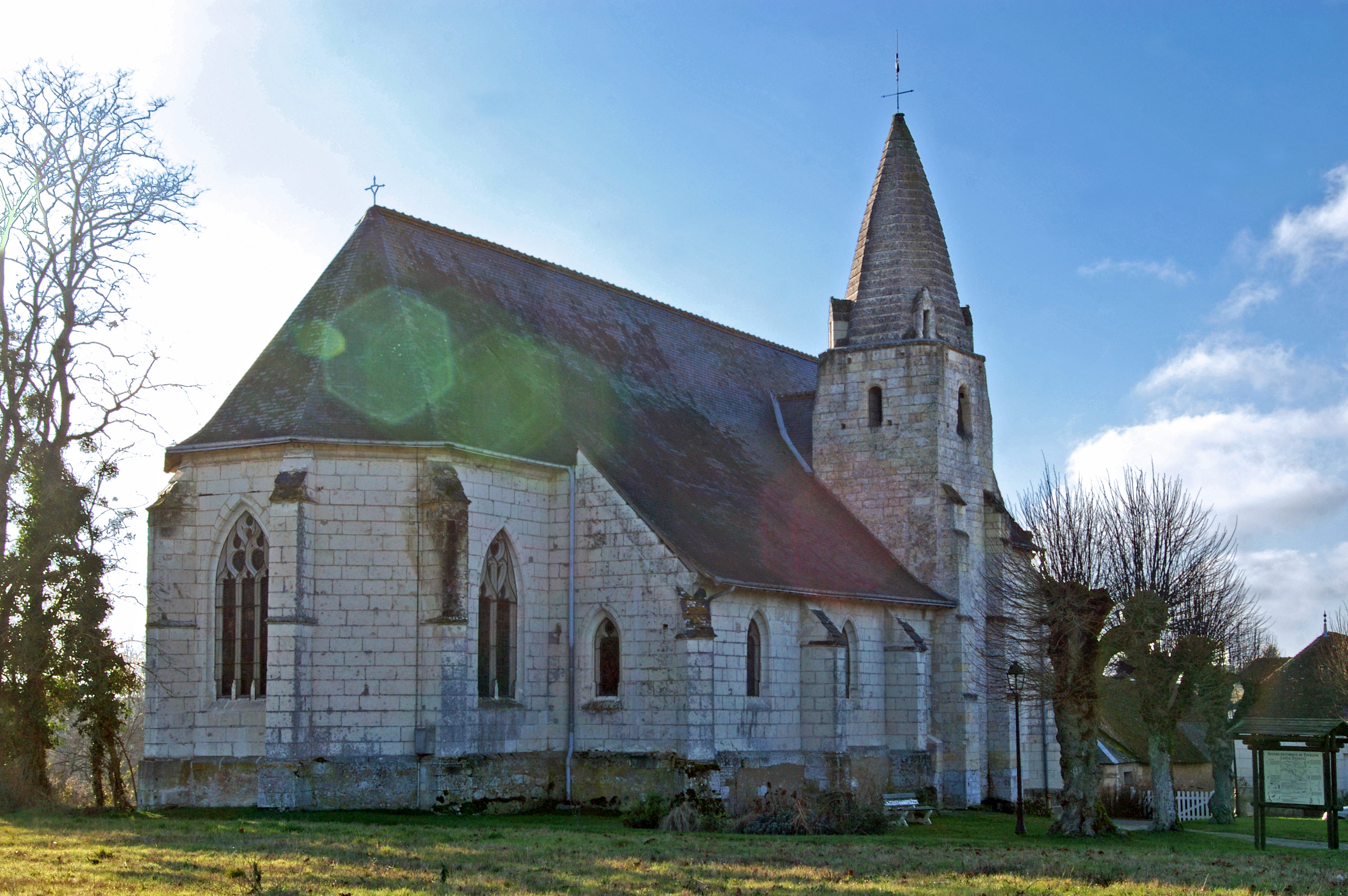 ÉGLISE SAINT MARTIN de Céré-la-Ronde. L'église dédiée à St Martin date du XVIème siècle, seules les fondations de la nef et le clocher datent du XIIème siècle. Church of St. Martin of Cere-la-Ronde. The church dedicated to St Martin from the XVIth century, only the foundations of the nave and tower date from the twelfth century.